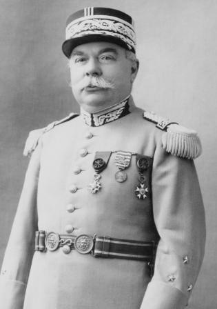 Membre éminent du développement de l'Esperanto en France